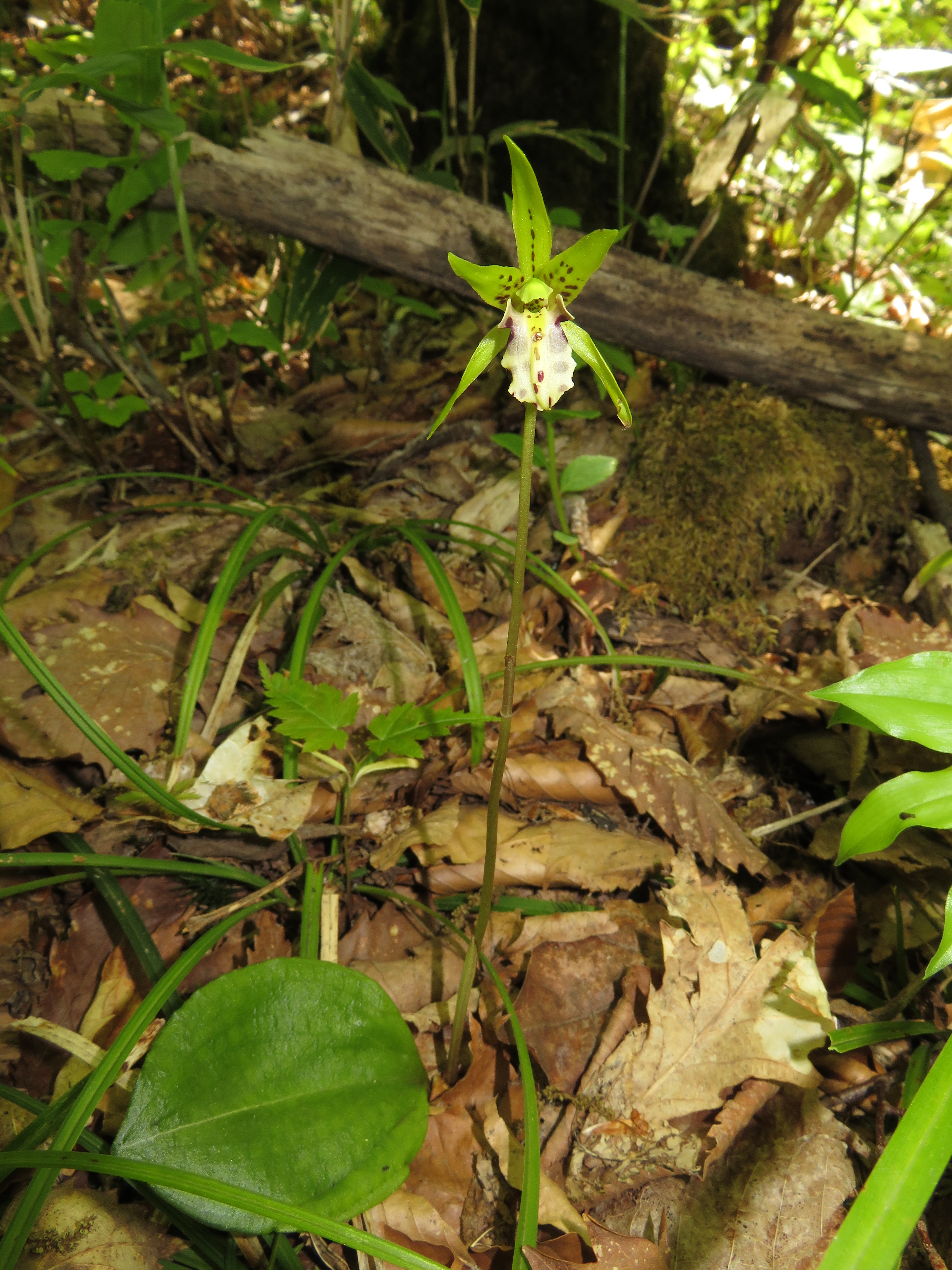 Dactylostalix ringens, Mount Nishi-Azuma, Fukushima pref., Japan